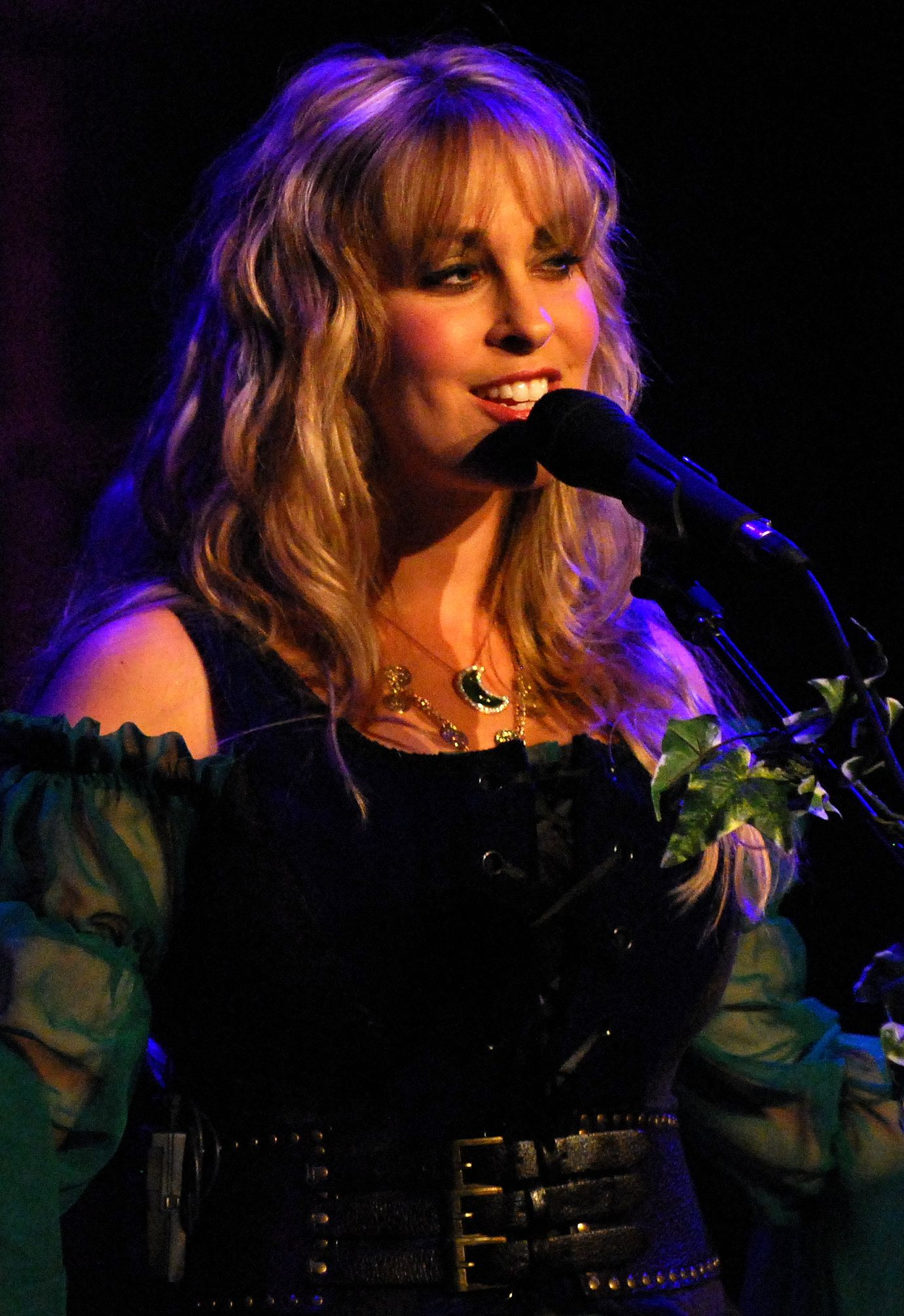 Candice Night performing in 2009 with Blackmores's Night. House of Blues, Chicago, IL, USA; October 17, 2009.